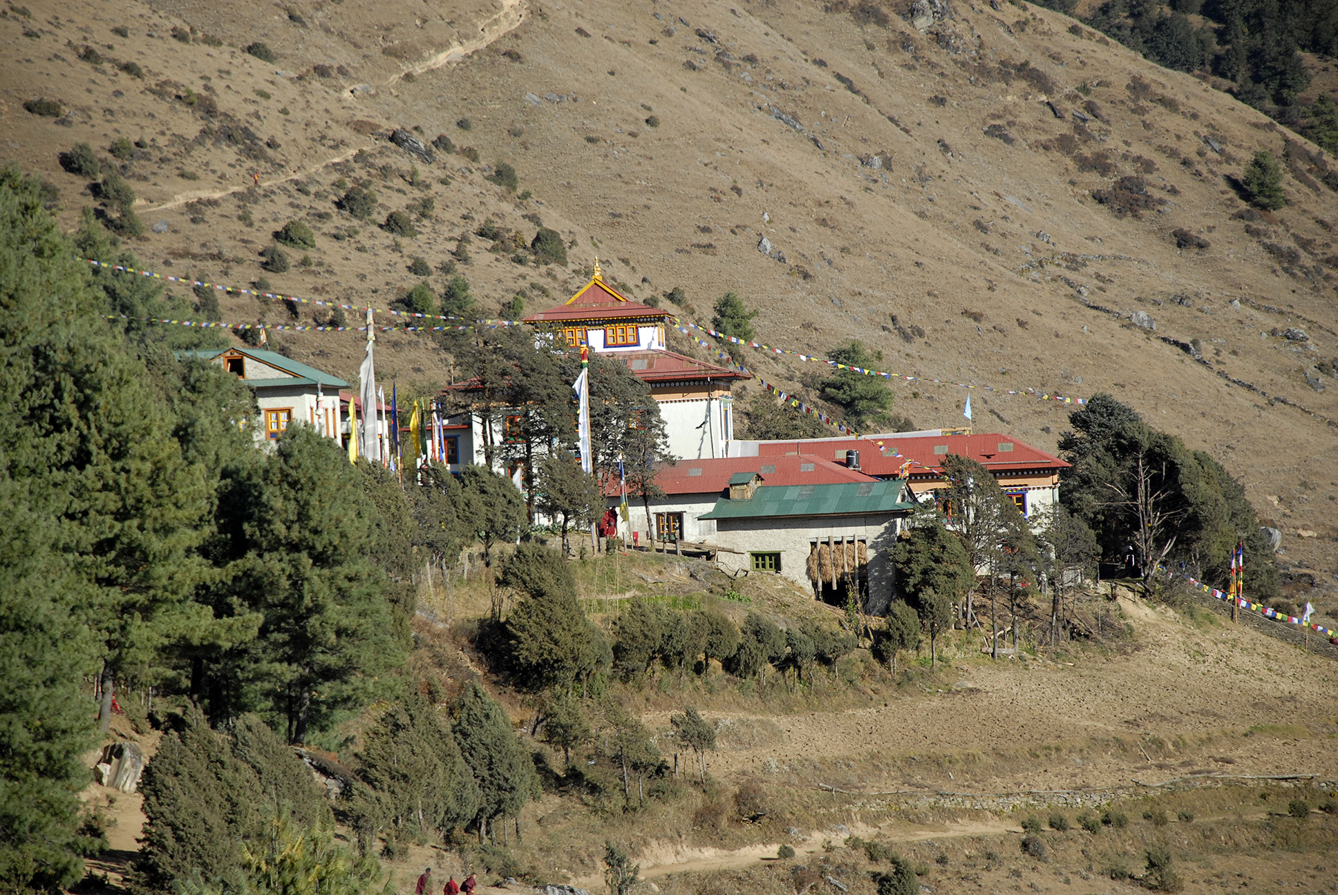 Buddhist monastery near the Junbesi.